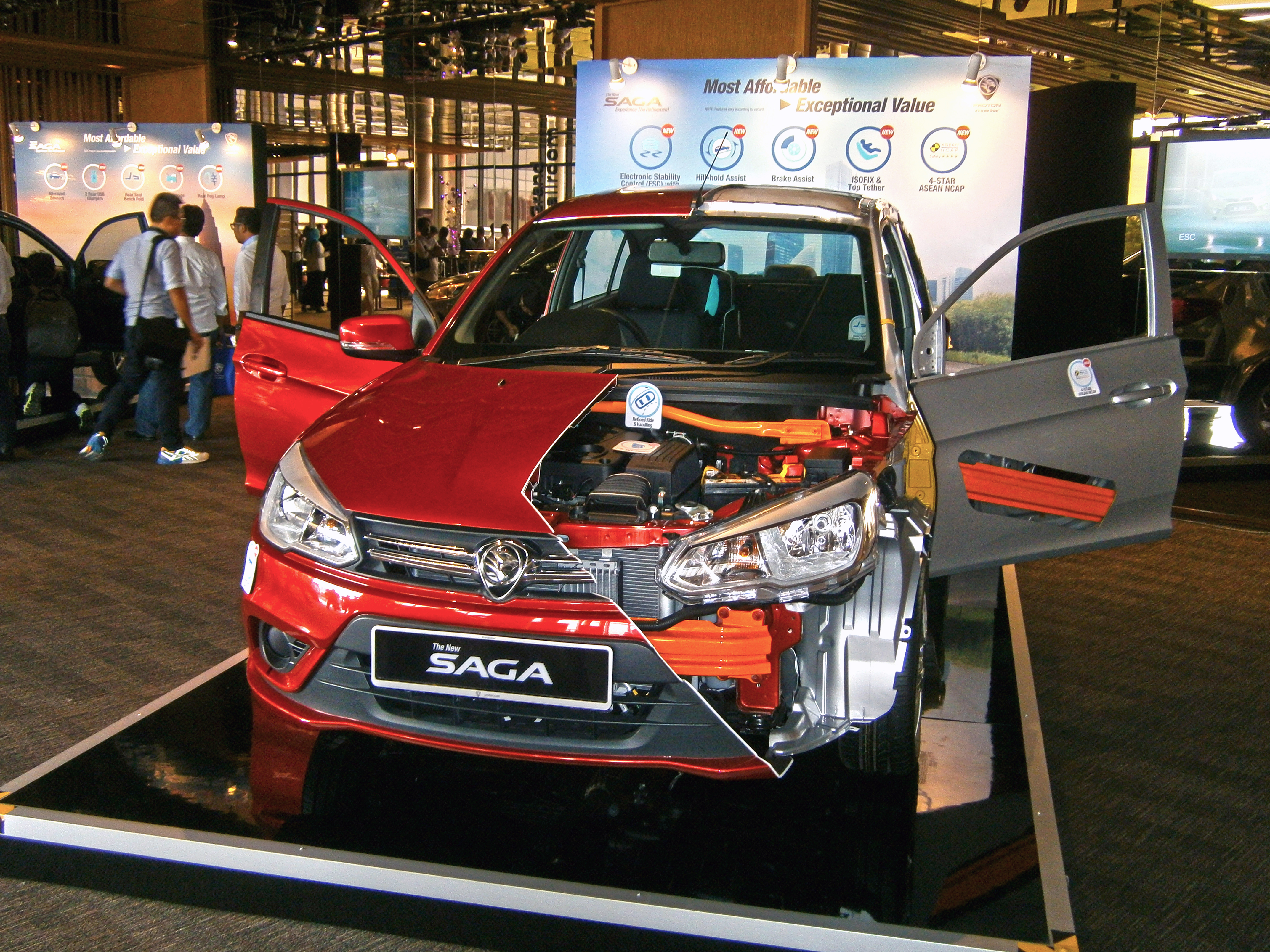 The new Saga is powered by the Iriz's 1.3-litre VVT engine. This is the first Saga to benefit from variable valve timing technology. Fuel efficiency is rated at 5.4L/100 km with the manual, and 5.6L/100 km with the CVT, both a constant 90 km/h. Like the Persona previously, Proton had invested considerably in NVH reduction and refinement. The new Saga is quieter, more responsive and smoother than the old FLX previously.